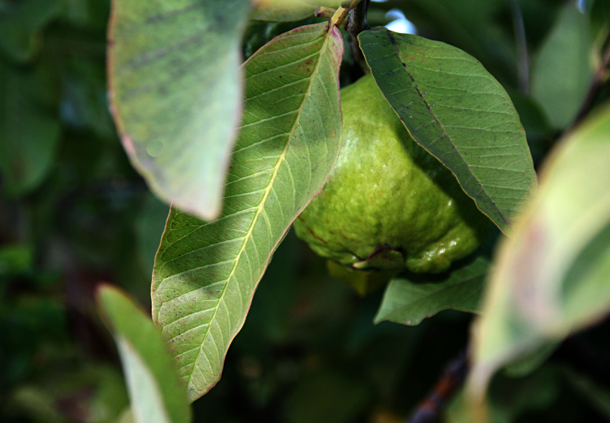 Okinawa guava leaf